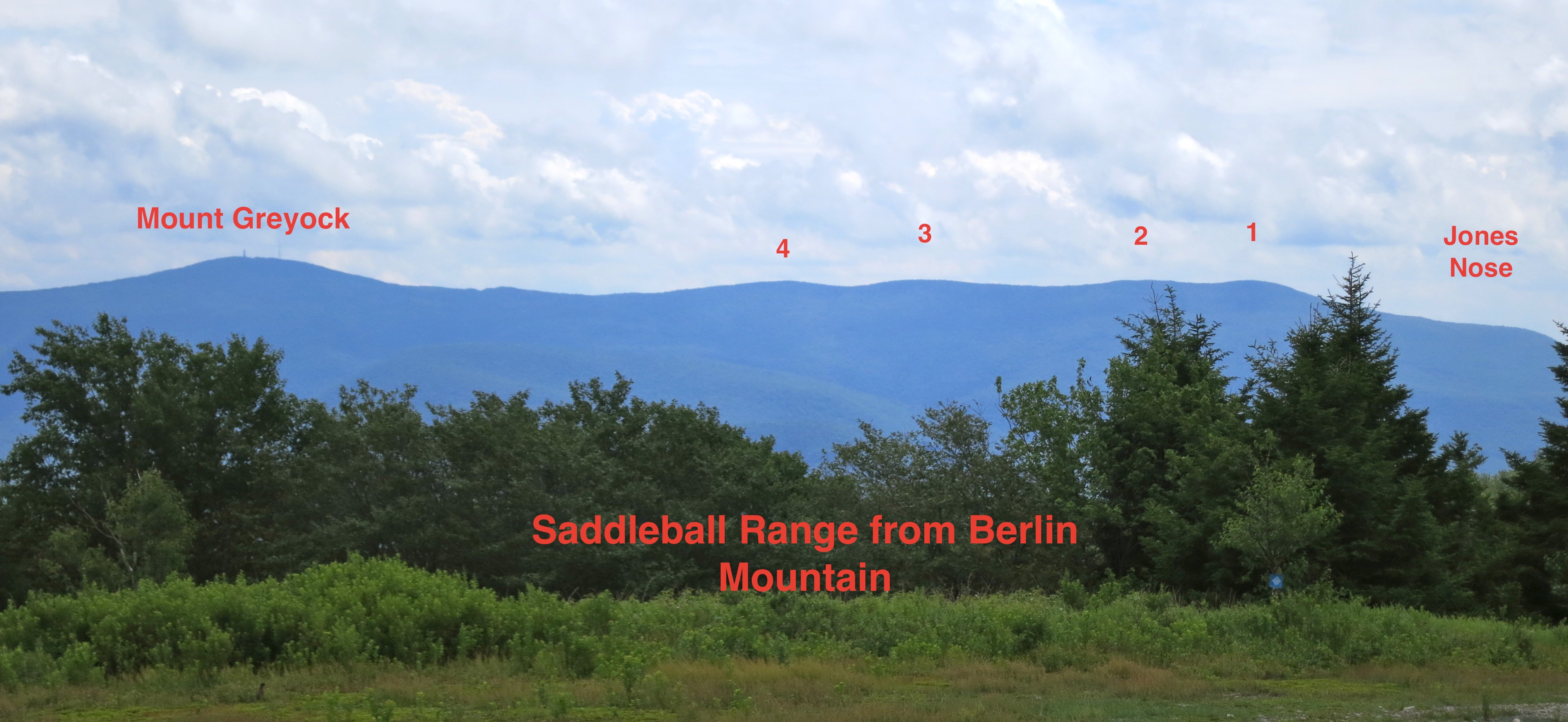 Profile of Saddleball Mountain and Mount Greylock from summit of Berlin Mountain